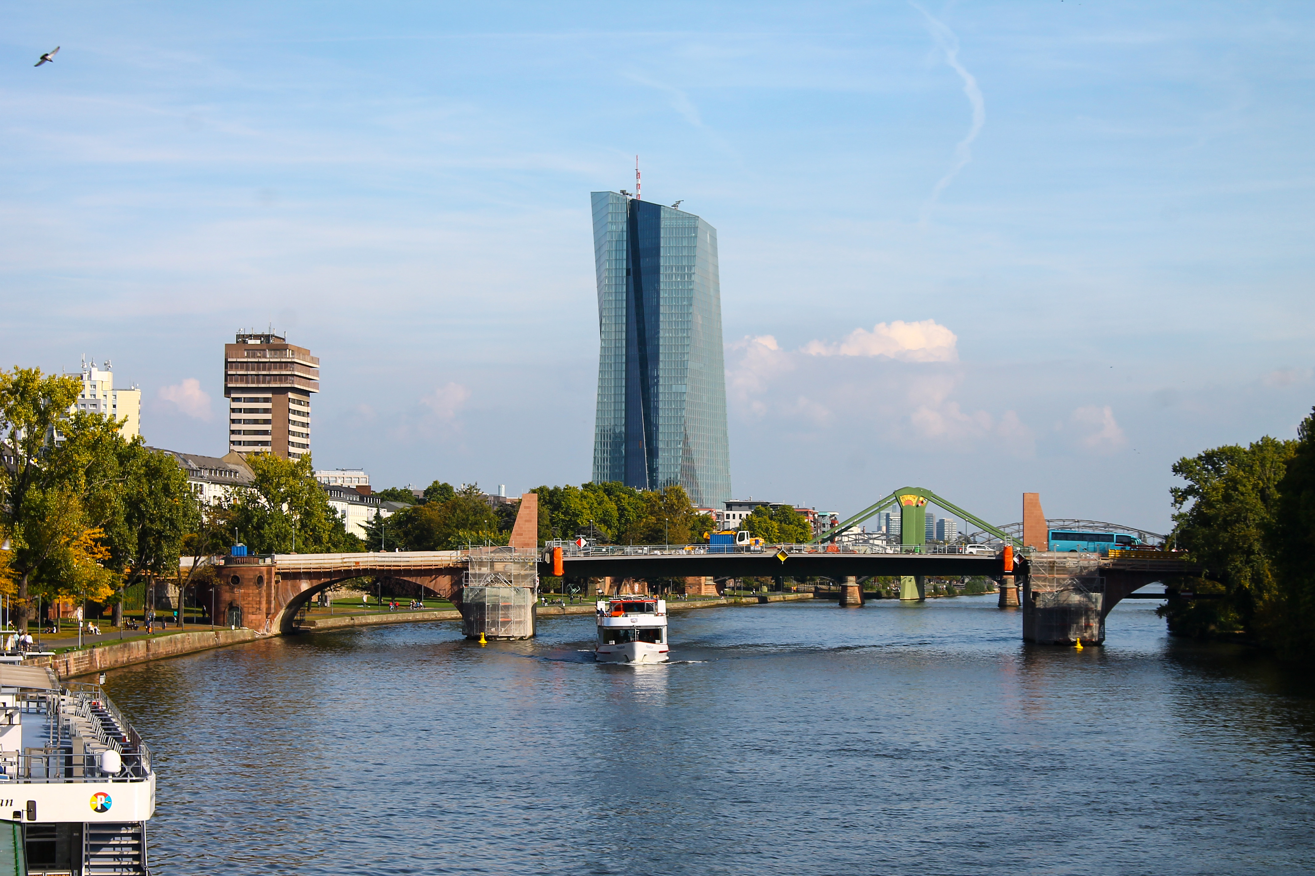 Blick vom Eisernen Steg (Oktober 2014)